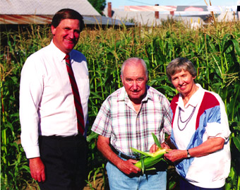 Senator Bob Smith meets with former New Hampshire Governor and conservative leader Meldrim Thomson and his wife Gale